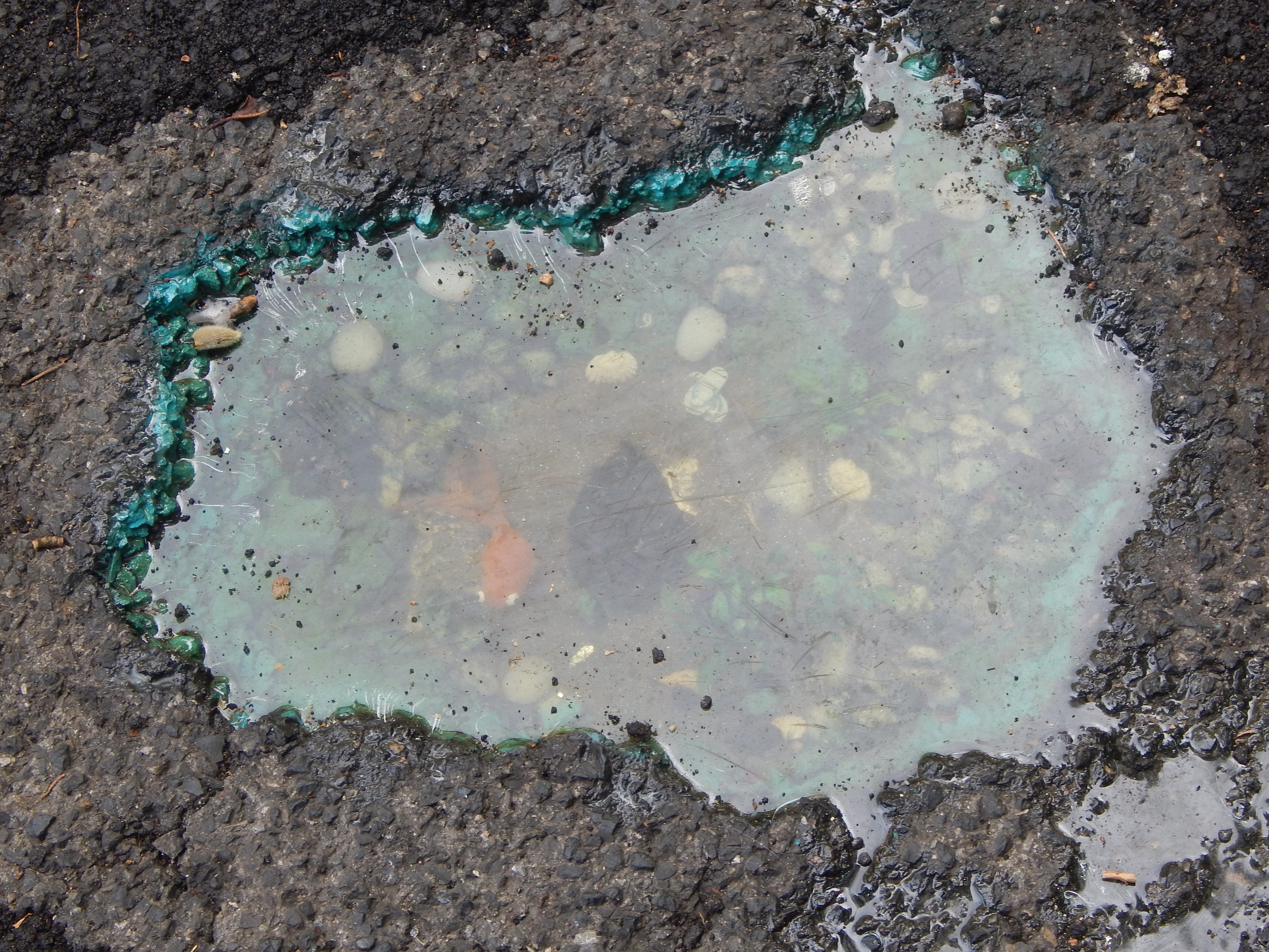 Sculpture of a gold fish in a pothole by Maren Dörwaldt in Mönchengladbach, Sittardstraße in 2018